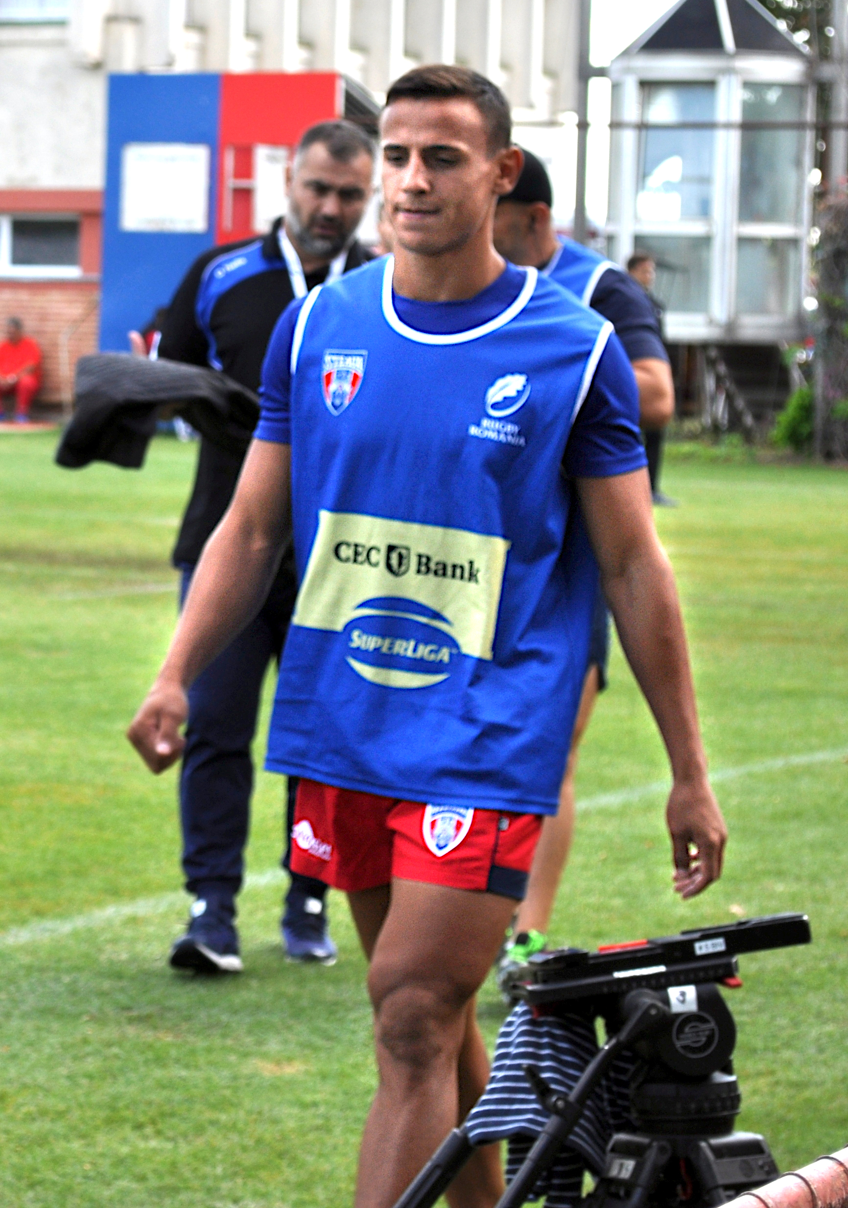 Romanian rugby union football player Ionel Melinte, player of CSA Steaua București rugby club seen training before a match against CSM Baia Mare in Round 5 of Romanian Rugby SuperLiga in September 2017